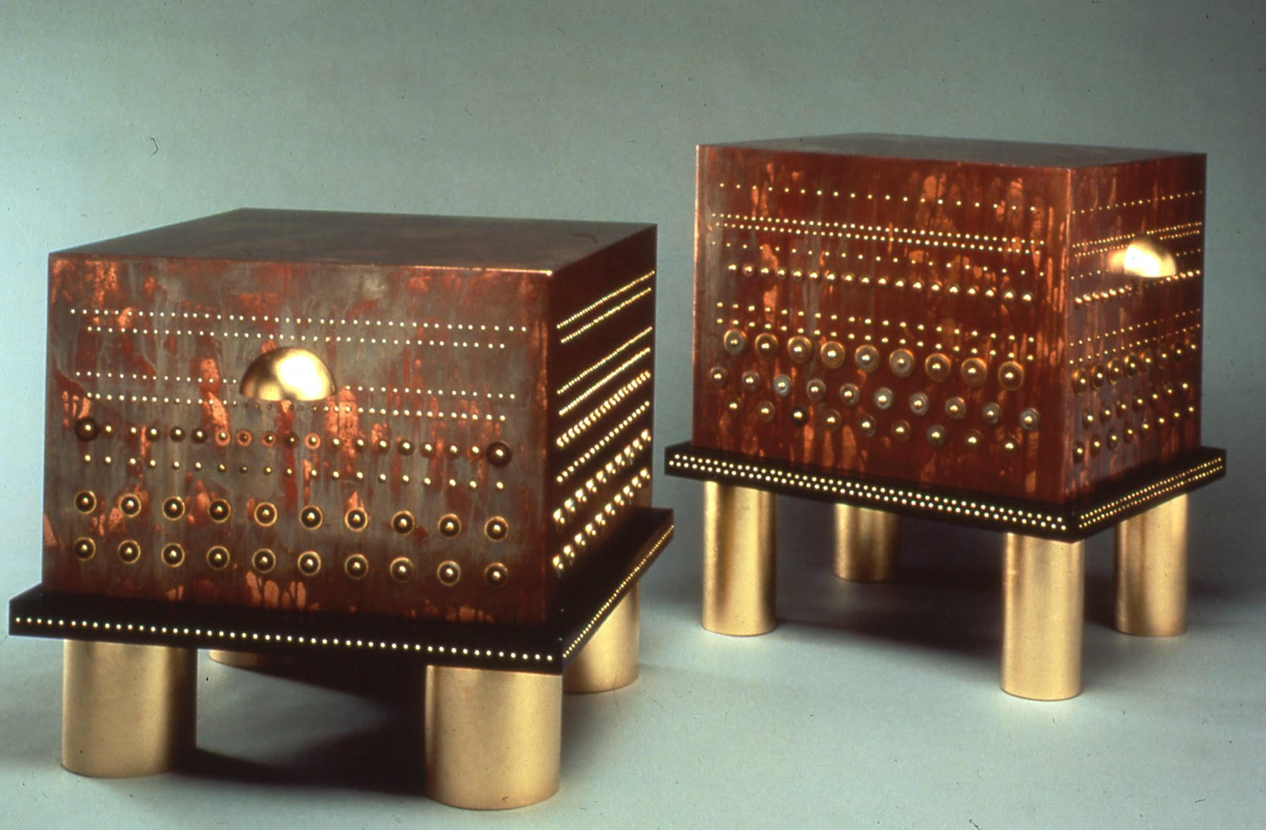 COIN ENCRUSTED TUDOR TABLES III & IV. Part of the Cooper Hewitt National Design Museum's permanent collection.